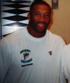 If used somewhere other than Wikipedia, Nelson, by name.